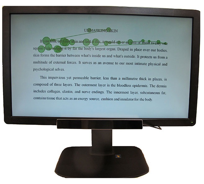 SMI RED250mobile eye tracking lab for demanding paradigms